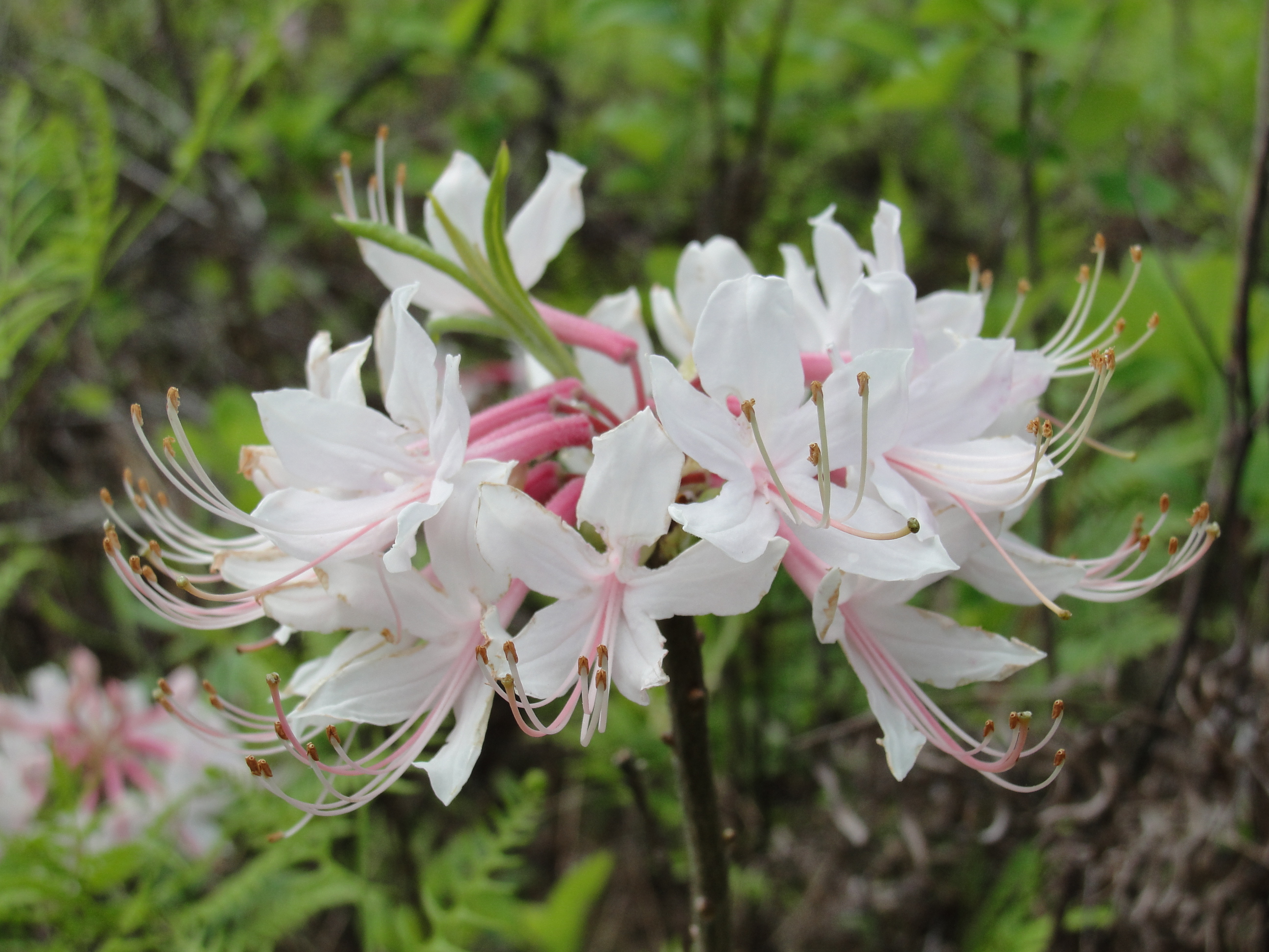 Photo Credit to Dr. Charles Horn